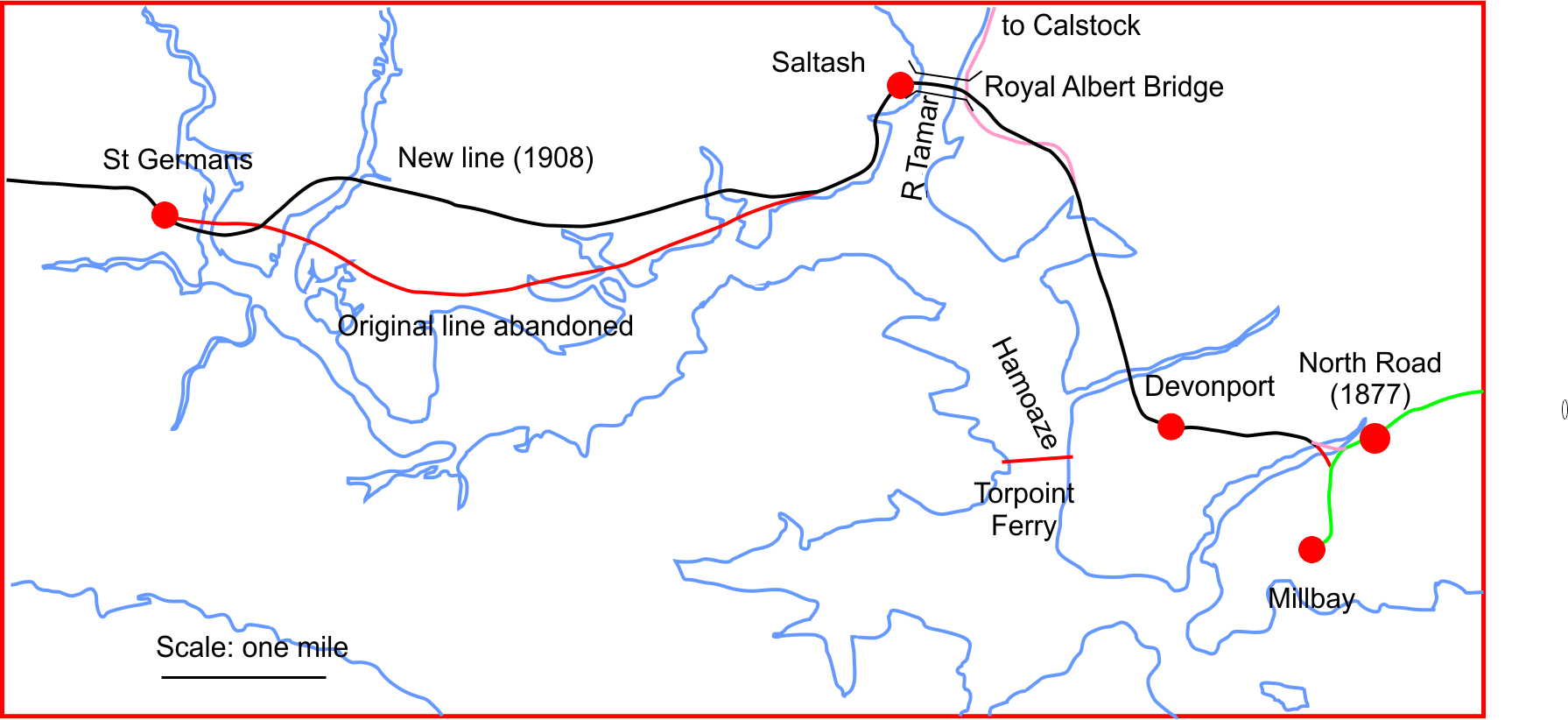 Diagram showing the Cornwall Railway route from St Germans to Plymouth and the 1908 deviation, and Torpoint Ferry